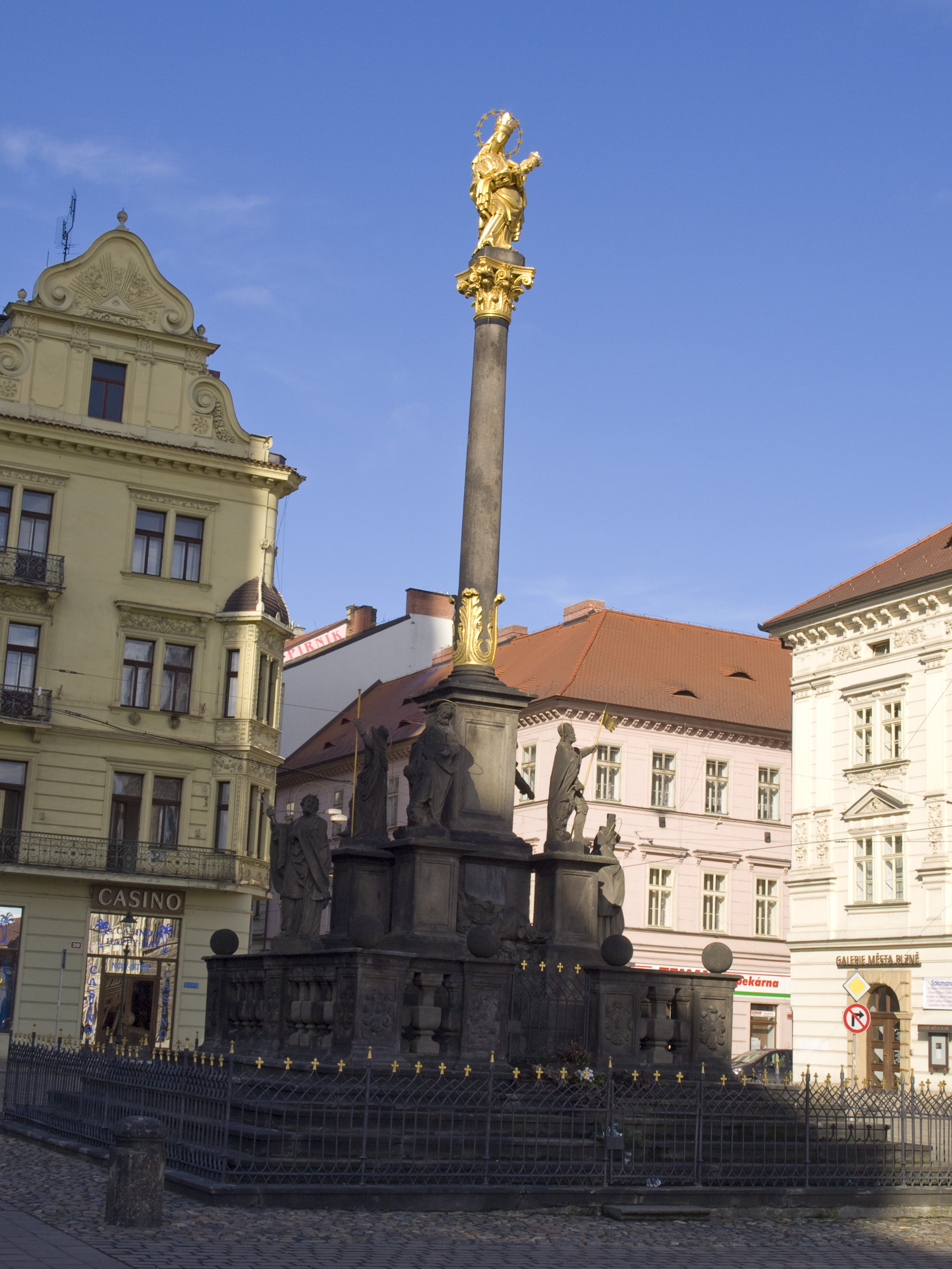 Statue, Náměstí Republiky, Plzeň